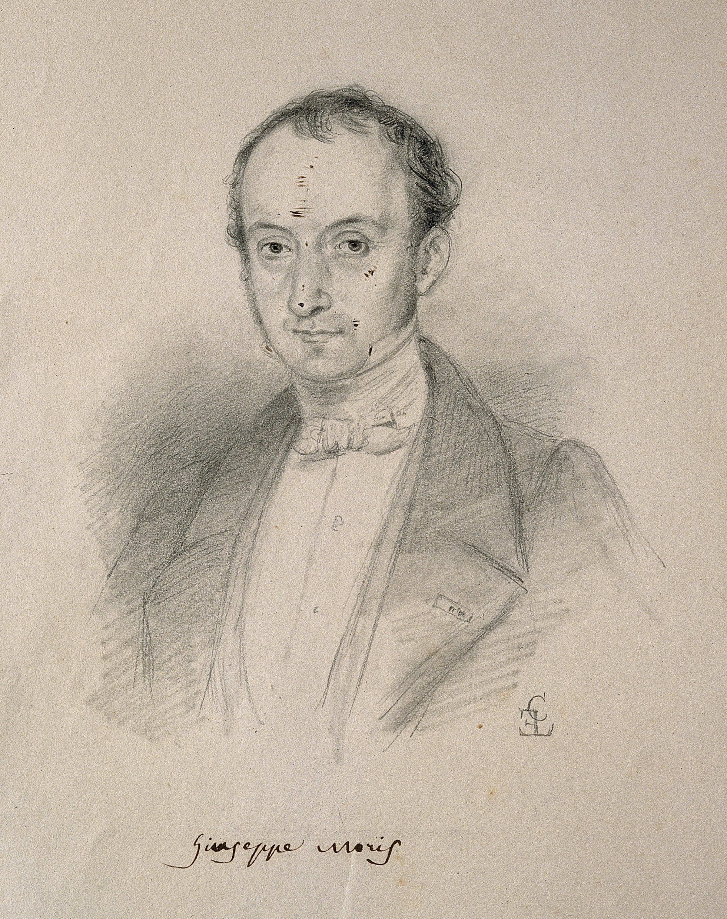 Giuseppe Giacinto Moris. Pencil drawing by C. E. Liverati, 1841. Iconographic Collections Keywords: Giuseppe Giacinto Moris; portrait drawings